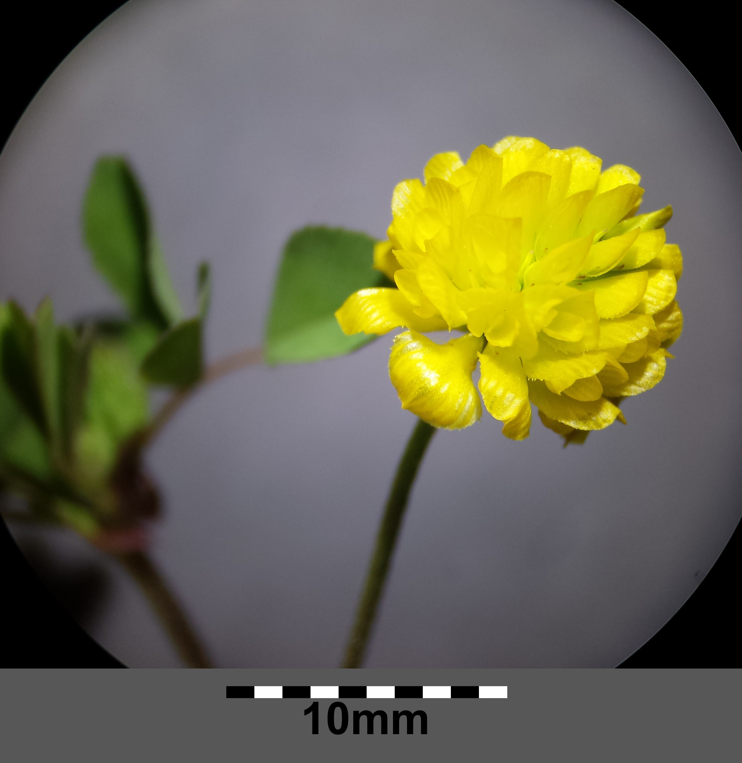 Inflorescence Taxonym: Trifolium campestre ss Fischer et al. EfÖLS 2008 ISBN 978-3-85474-187-9 Location: Neue Donau, Vienna-Floridsdorf - ca. 160 m a.s.l. Habitat: dry meadows